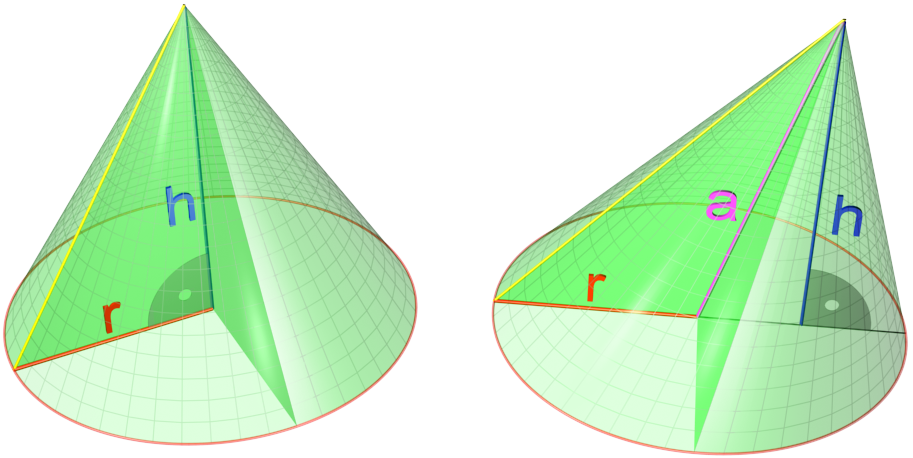 Illustration of geometrical cones